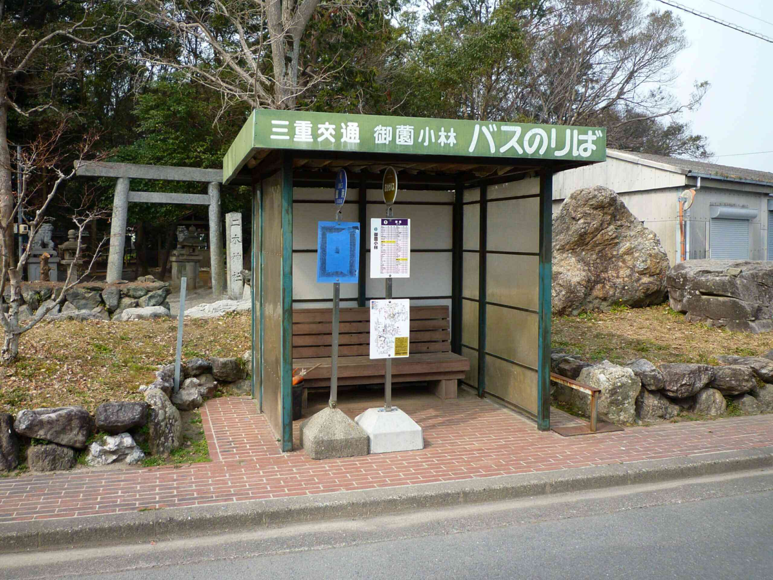 Mie Kotsu Misono-ohayashi Bus Stop